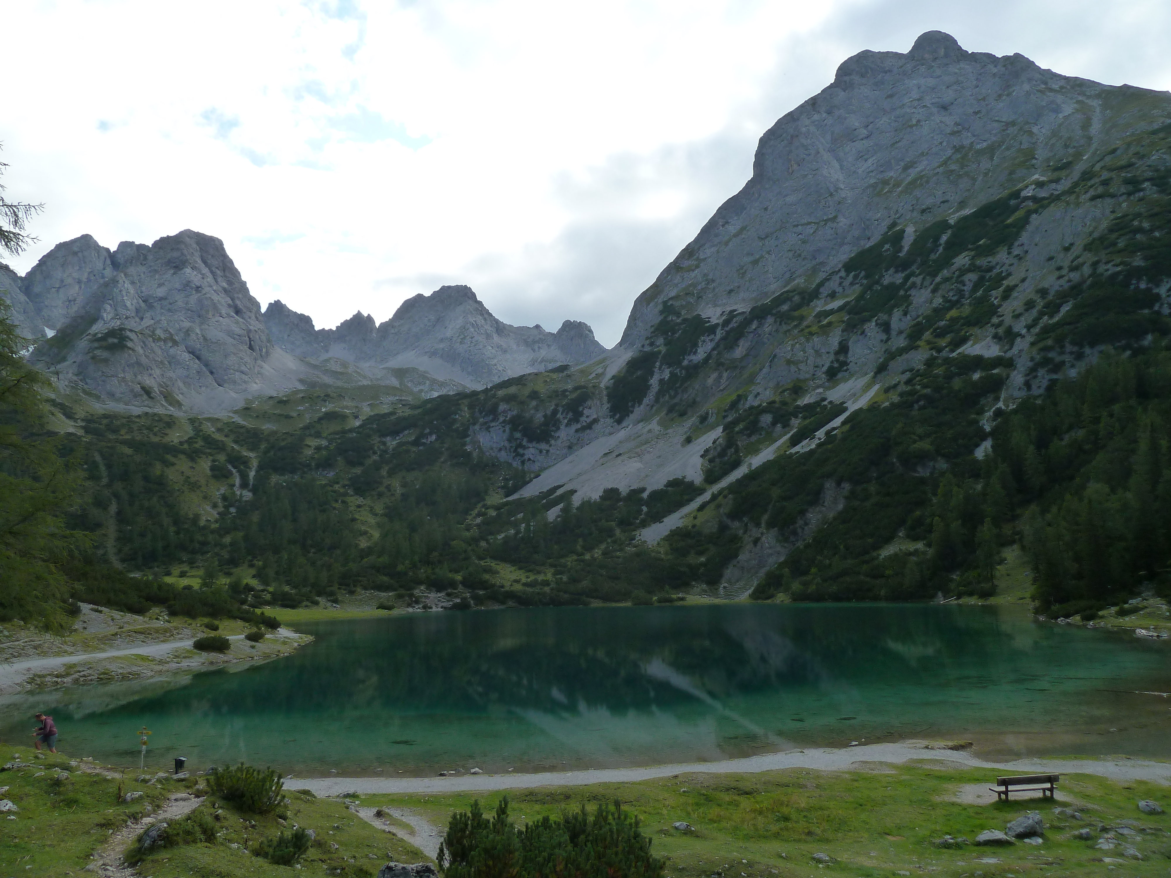 Seebensee with Mieminger Berge mountains (Sonnenspitze on the right).